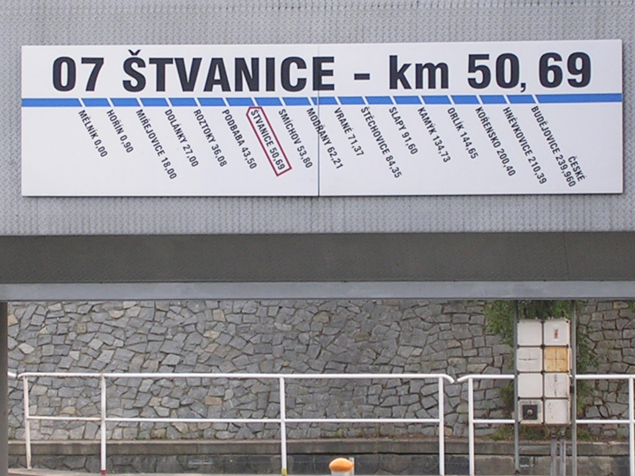 Prague, the Czech Republic. Štvanice Sluice.